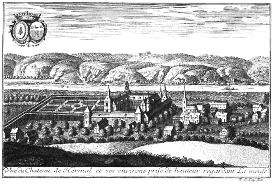 Panorama Hermalle-sous-Huy centered on the castle Hermalle-sous-Huy, by the designer Remacle Le Loup, 1735